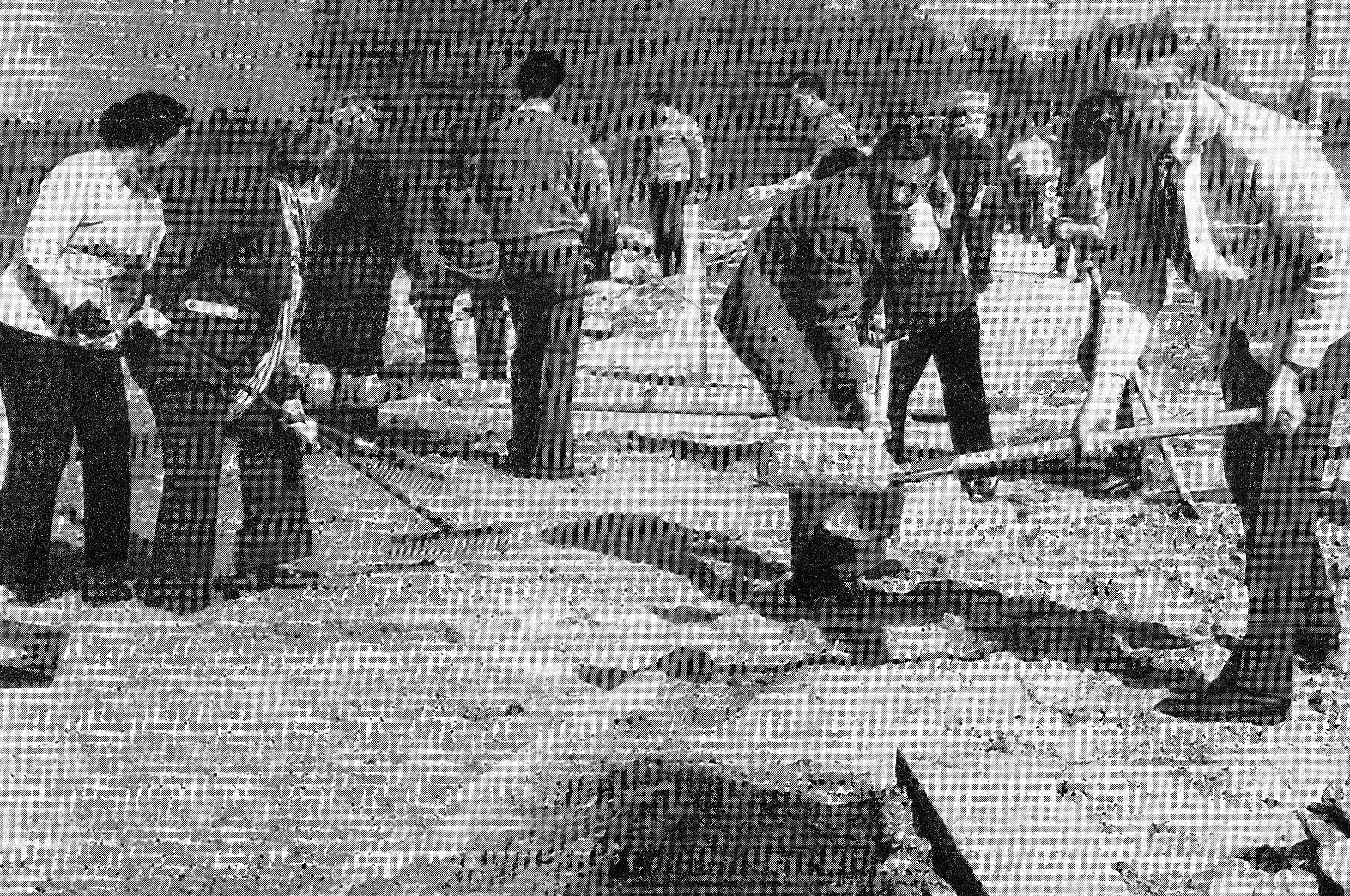 Stanisława and Edward Gierek during the Party Day of Volunteer Labour in Warsaw